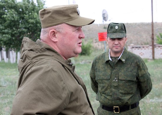 Kazakh general Murat Maikeyev.